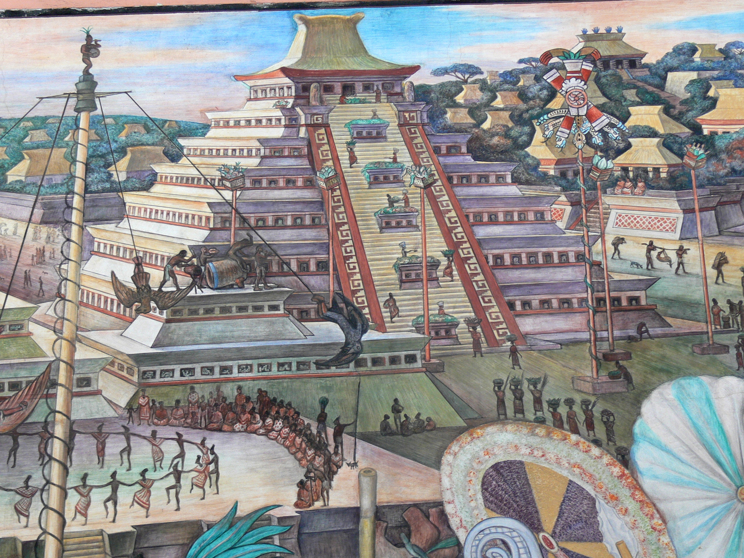 Mexico City - Palacio Nacional. Mural by Diego Rivera showing the life in El Tajín (not Tenochtitlan as previously stated)